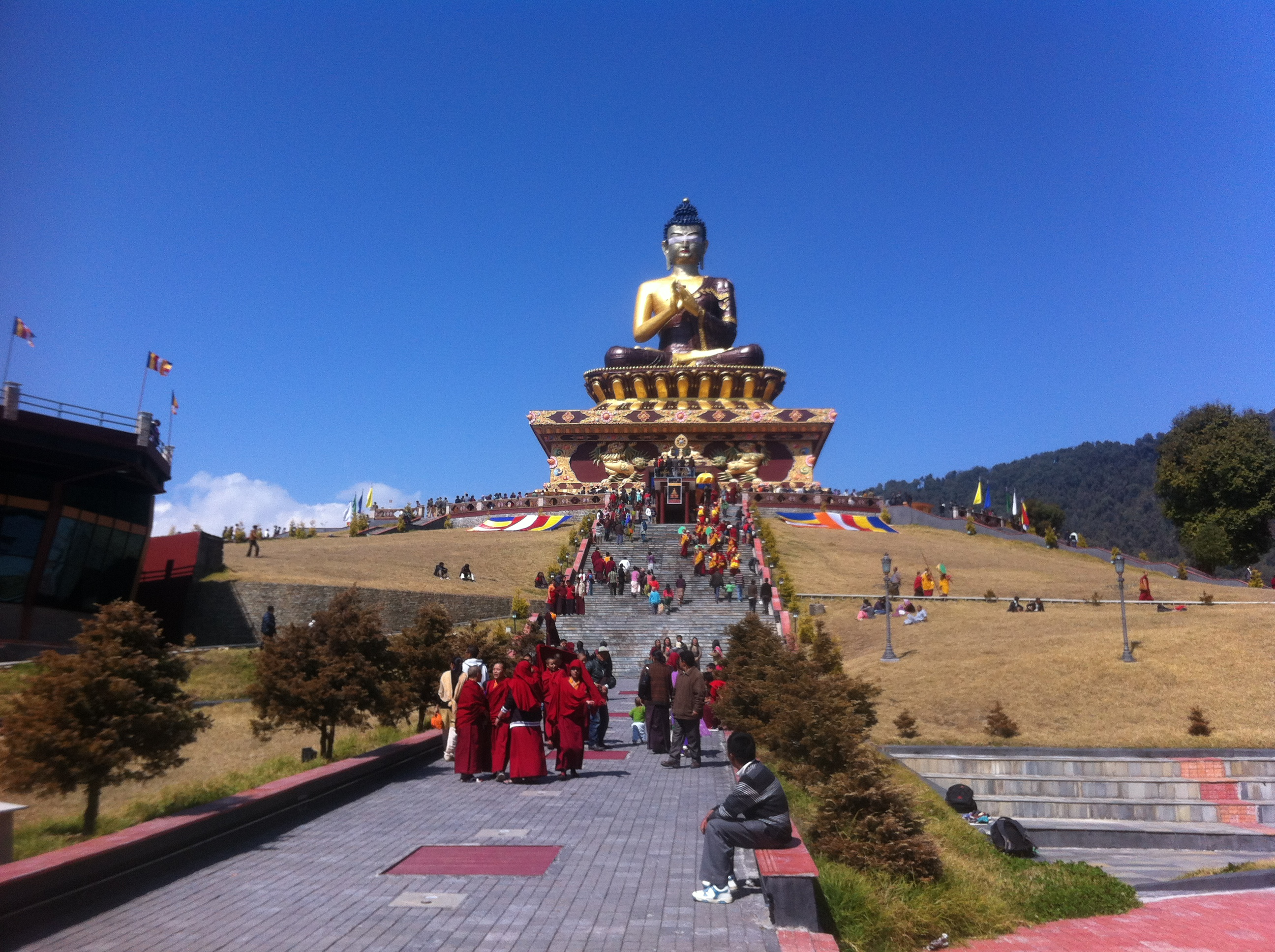 Prior to officially opening.